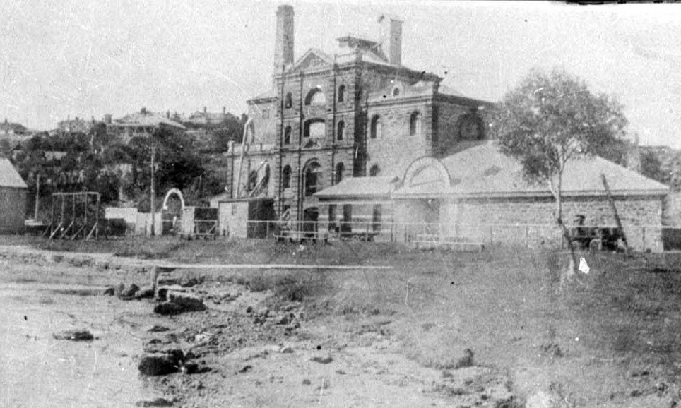 C1900s Castlemaine Brewery - LHC No.2046A Fremantle The Castlemaine Brewery was opened in 1896 by Howard Norman Sleigh at Riverside Road in East Fremantle, Western Australia